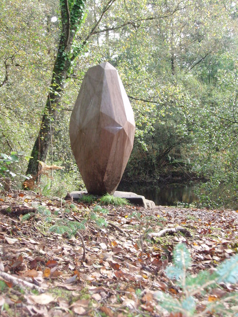 The Gem Stane at Kirroughtree Each of the 7stanes Cycle Centres has a sculptured stane by Gordon Young. The Gem Stane is polished pink quartz weighing approximately 1.75 tons, and is located on the blue and red cycle trail near Bruntis Loch.